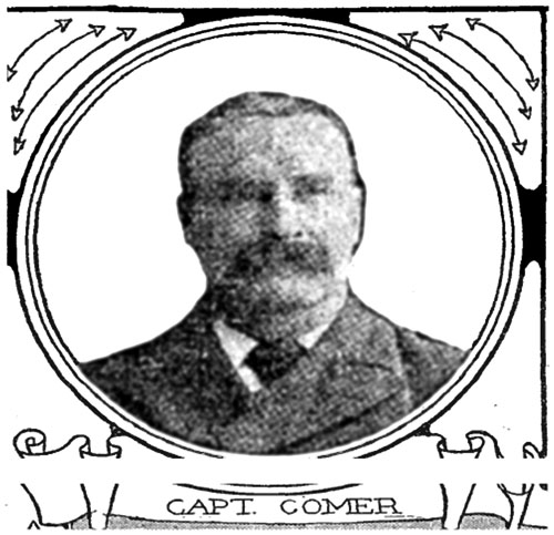 Captain George Comer (April 1858 – 1937) was considered the most famous American whaling captain of Hudson Bay, and the world's foremost authority on Hudson Bay Inuit in the early 20th century. Comer was born in Quebec City, Quebec, Canada